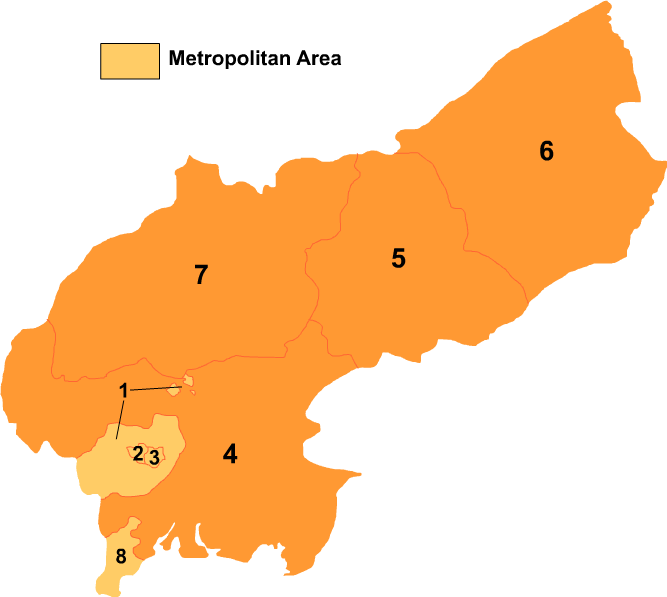 Map of Jinzhou in Liaoning province